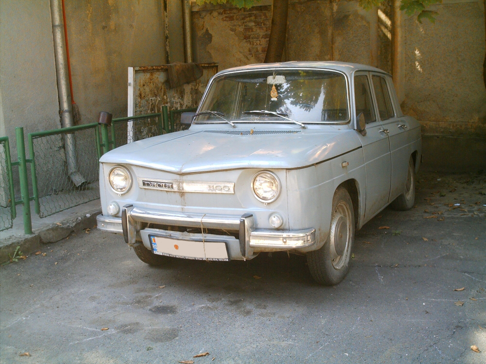 Dacia 1100, based on the Renault 8, built between 1968 and 1971. The vehicle is registred in Romania.